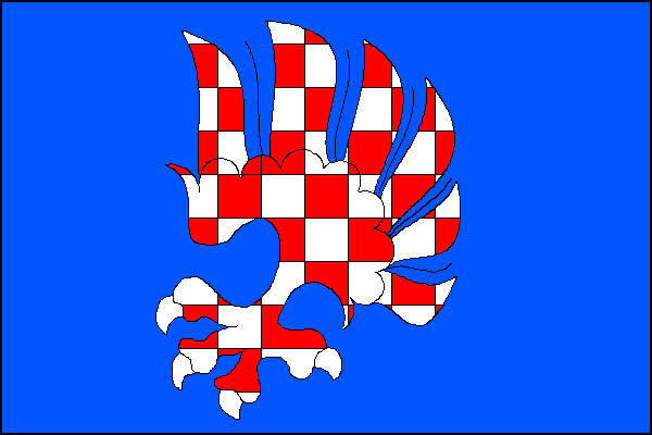 Municipal flag of Náměšť na Hané market town, ˇOlomouc District, Czech Republic.